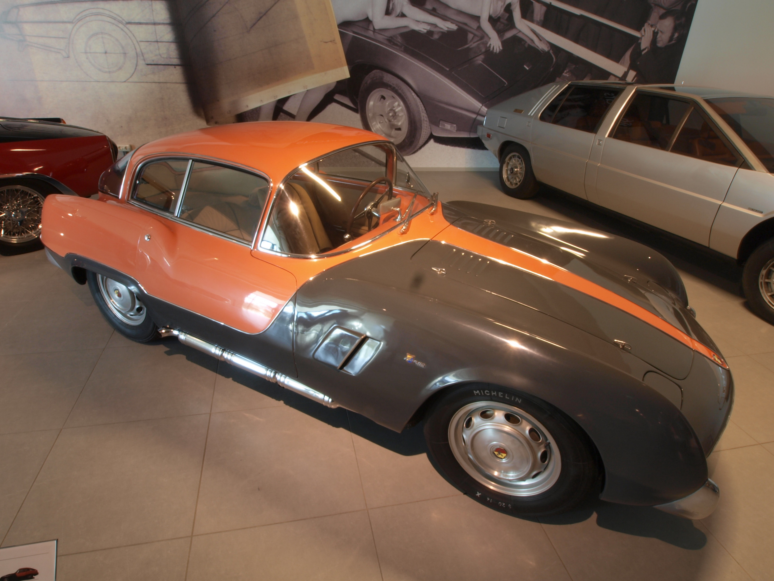 Photographed at the Louwman museum / Louwman Collection, The Netherlands.